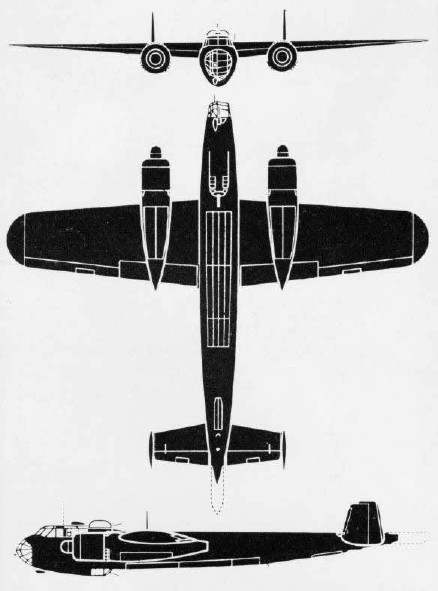 Three-side drawing of German Dornier Do 217E bomber, 1943.